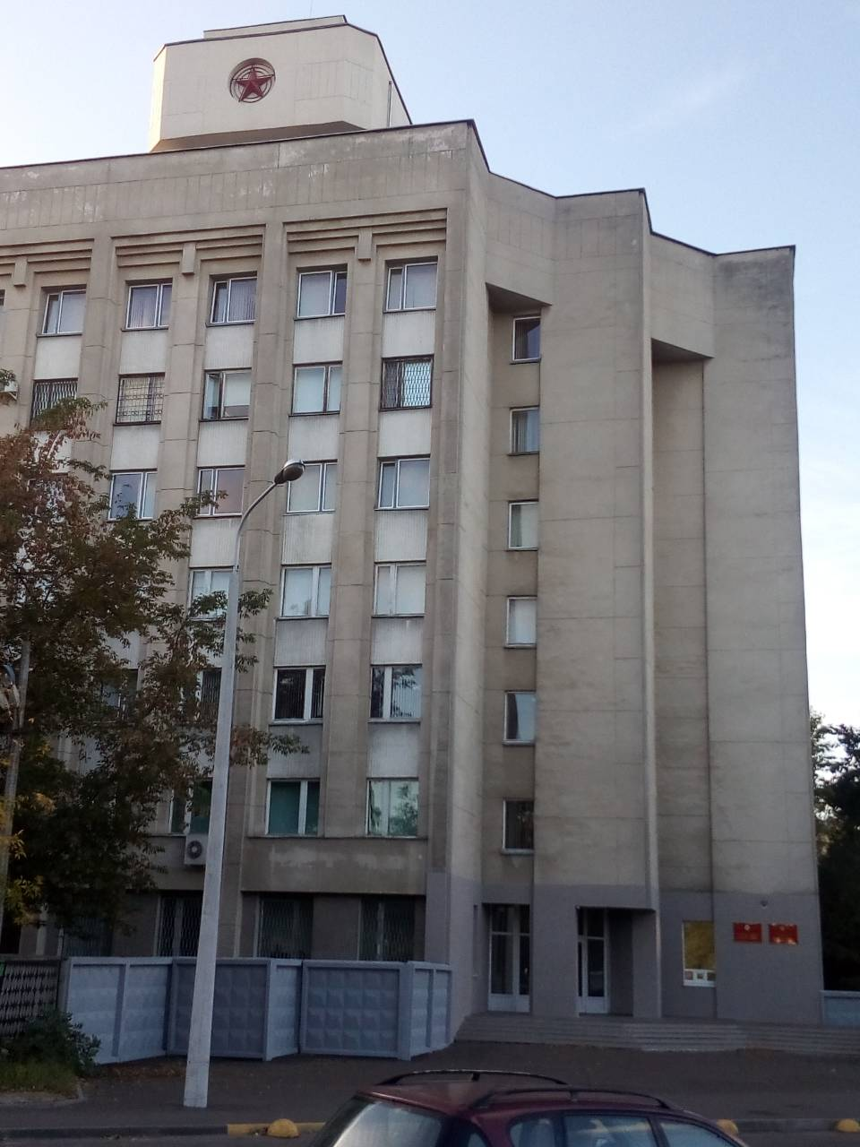 Faculty of General Staff of the Armed Forces at the Military Academy of the Republic of Belarus. Minsk, 4 Slavinskaha Street. 27 September 2018.